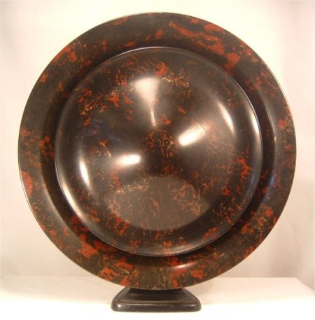 Type 2007. Introduced in 1926 by Philips. A bakelite louspeaker on an iron foot with moving coil and stationary magnetic field. Besides a loudspeaker it was mented to be an object of art too. It has a triple lead, the plug contains a switch to select different impedances. The electro-magnetic system and paper cone are between the two disks. Diameter of the bigger disk is 45 cm. More than 240,000 were produced, in various colors: purple, pink, red or green were also possible. There are no 2 similar speakers, they all have different cloudy patterns, due to being hand-made.